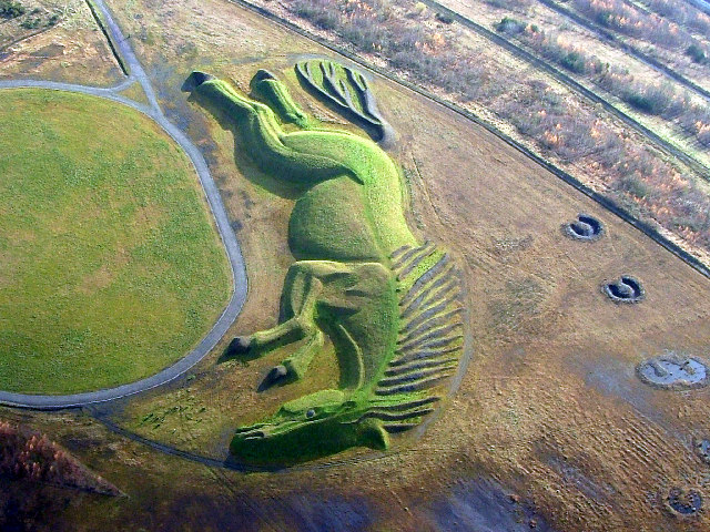 Penallta pit pony. Helicopter shot of the pit pony Parc Penallta taken by Phil Matthews